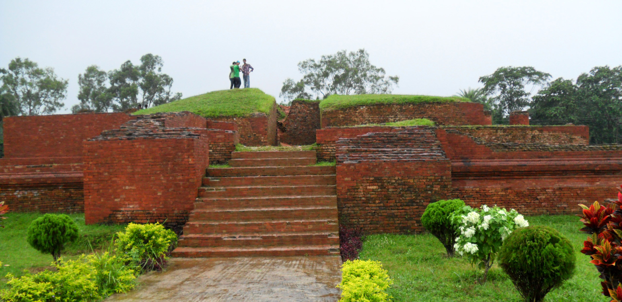 Shalbon Vihara at Comilla, Bangladesh.